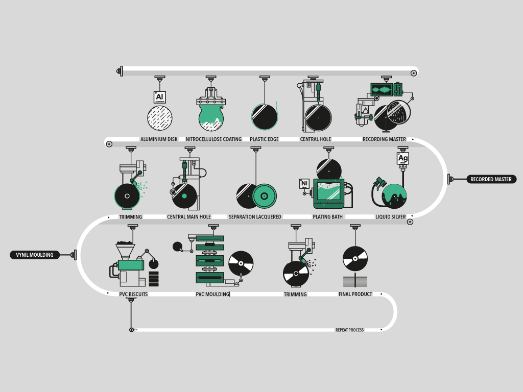 Production of gramophone records